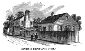 The house and library of Tennessee Governor William G. Brownlow in Knoxville, Tennessee, as it appeared in the late 1860s.